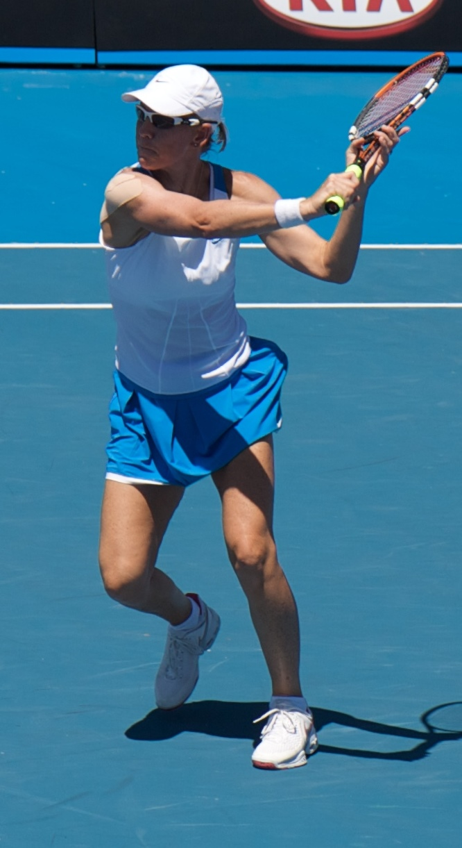 Rennae Stubbs at the 2009 Australian Open, Melbourne, Australia.